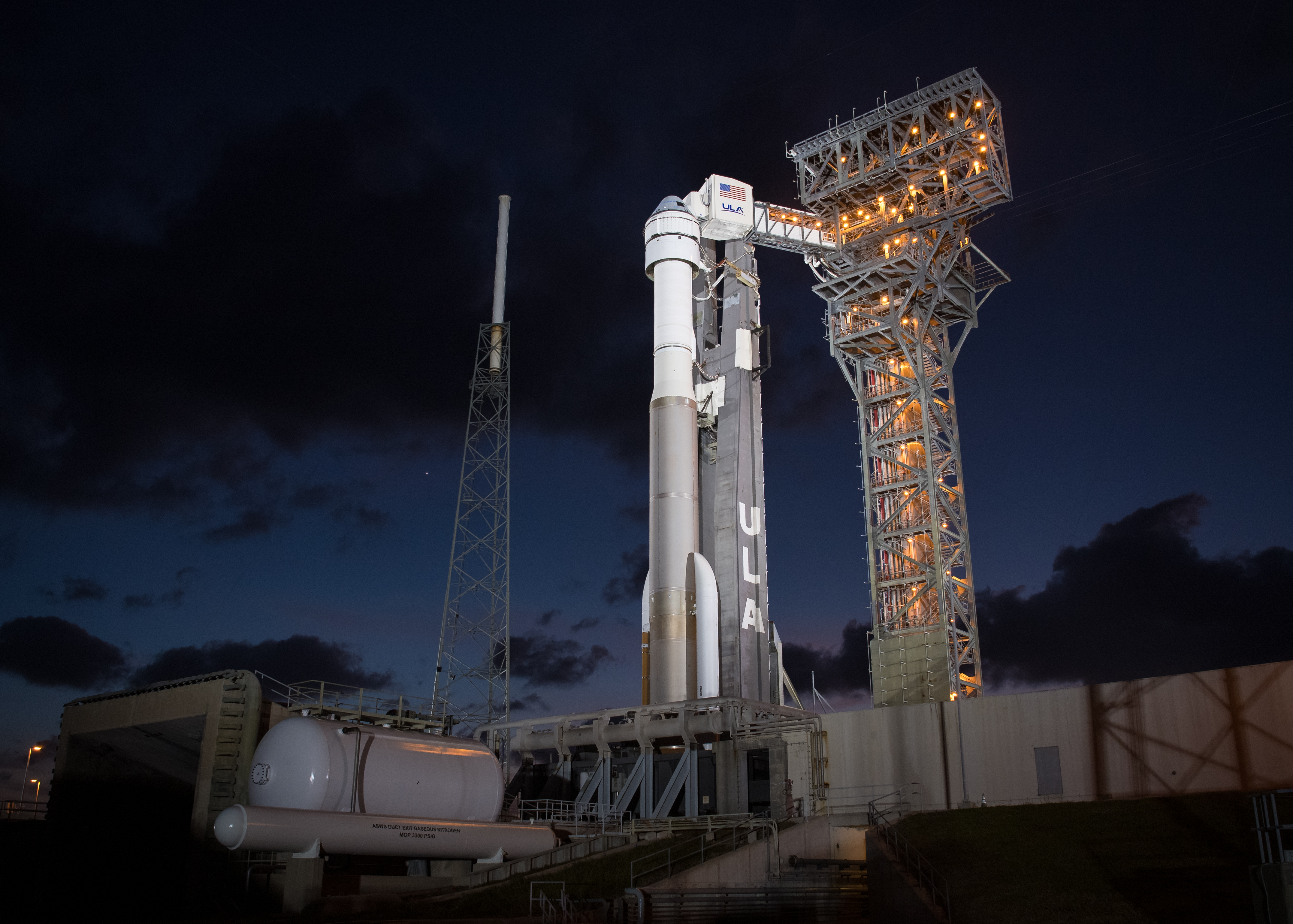 A United Launch Alliance Atlas V rocket with Boeing’s CST-100 Starliner spacecraft onboard is seen illuminated by spotlights on the launch pad at Space Launch Complex 41 ahead of the Orbital Flight Test mission, Wednesday, Dec. 18, 2019 at Cape Canaveral Air Force Station in Florida. The uncrewed Orbital Flight Test will be Starliner’s maiden mission to the International Space Station for NASA's Commercial Crew Program. The mission, currently targeted for a 6:26 a.m. EST launch on Dec. 20, will serve as an end-to-end test of the system's capabilities. Photo Credit: (NASA/Joel Kowsky)